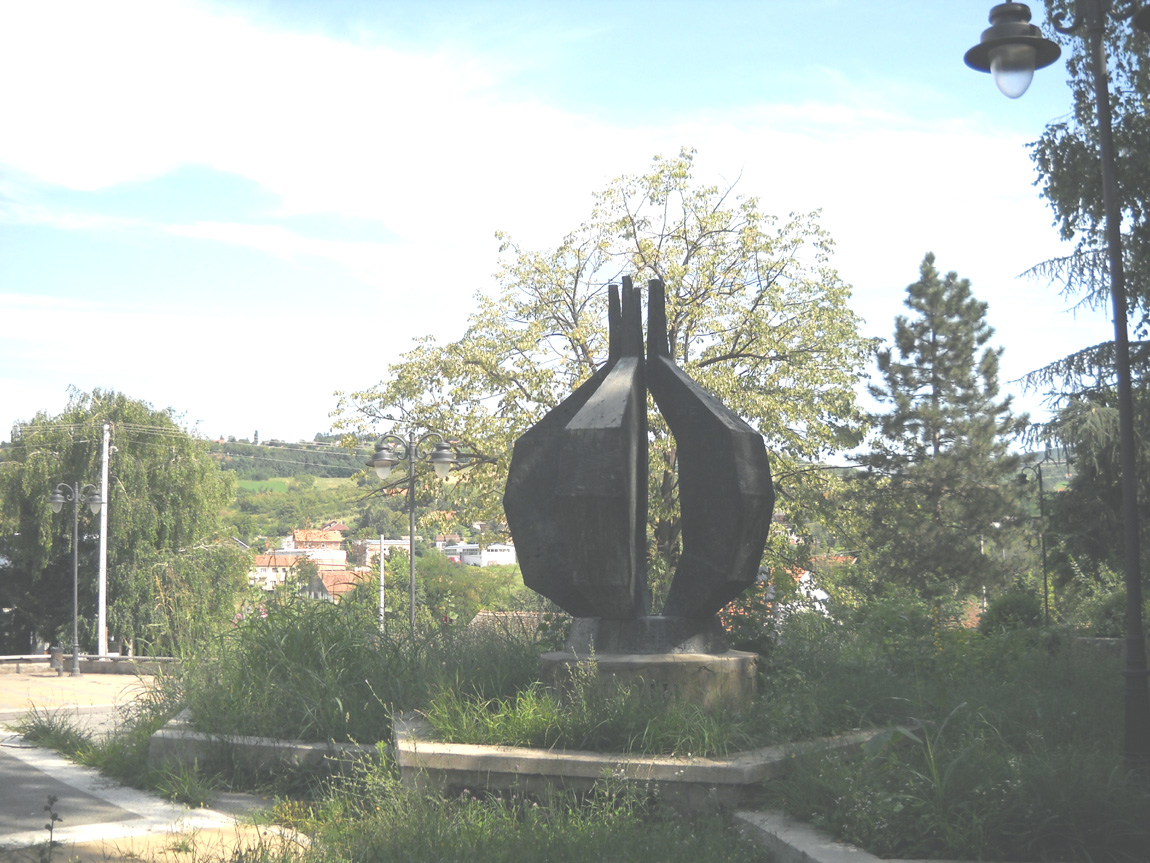 Monument of fallen fighters in Ledinci, dedicated to the fallen members of the World War II partisan resistance movement.